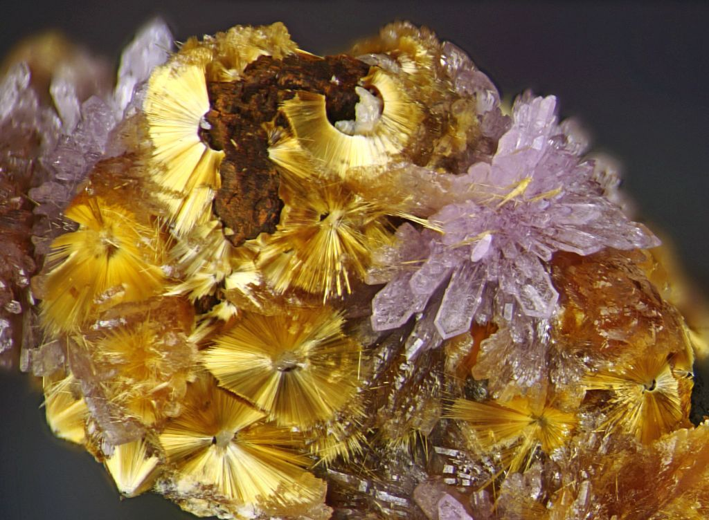 Strengite, Cacoxenite (FOV 6.1 x 4.6 mm) Locality: Indian Mountain, Cherokee County, Alabama, USA Lilac strengite blades with cacoxenite “sunbursts”.